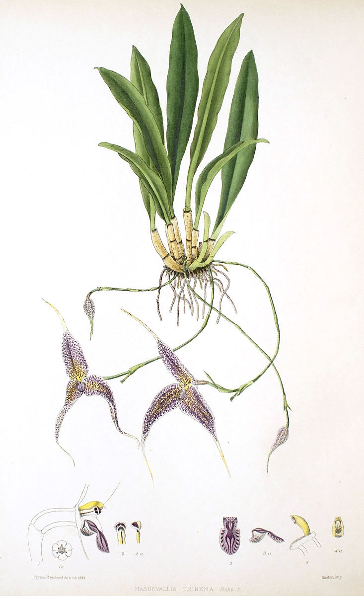 Illustration of Dracula velutina from Florence H. Woolward: The Genus Masdevallia